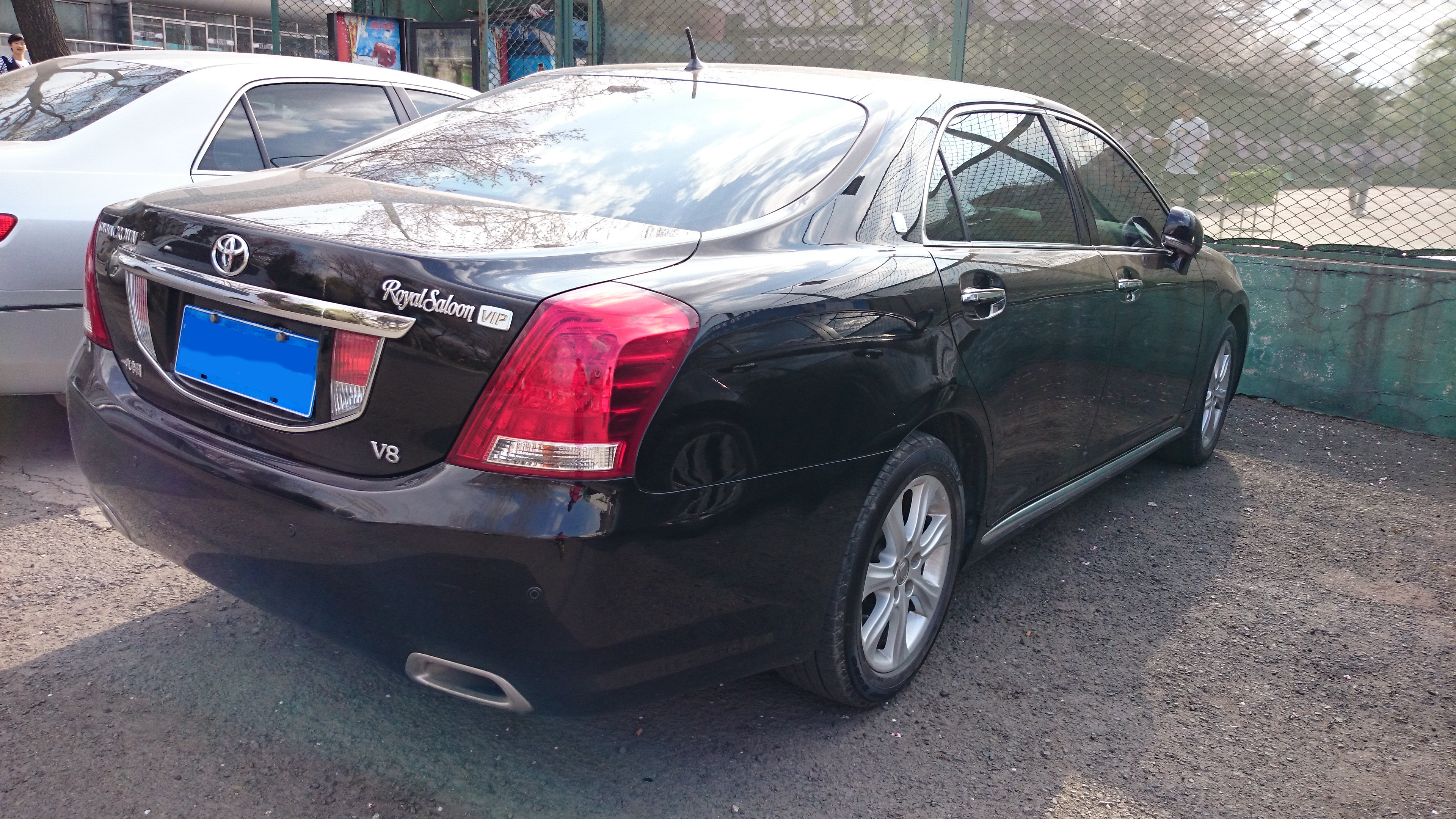 Toyota Crown RoyalSaloon VIP V8, built by FAW Toyota in China. It's called Toyota Crown Majesta in Japan.